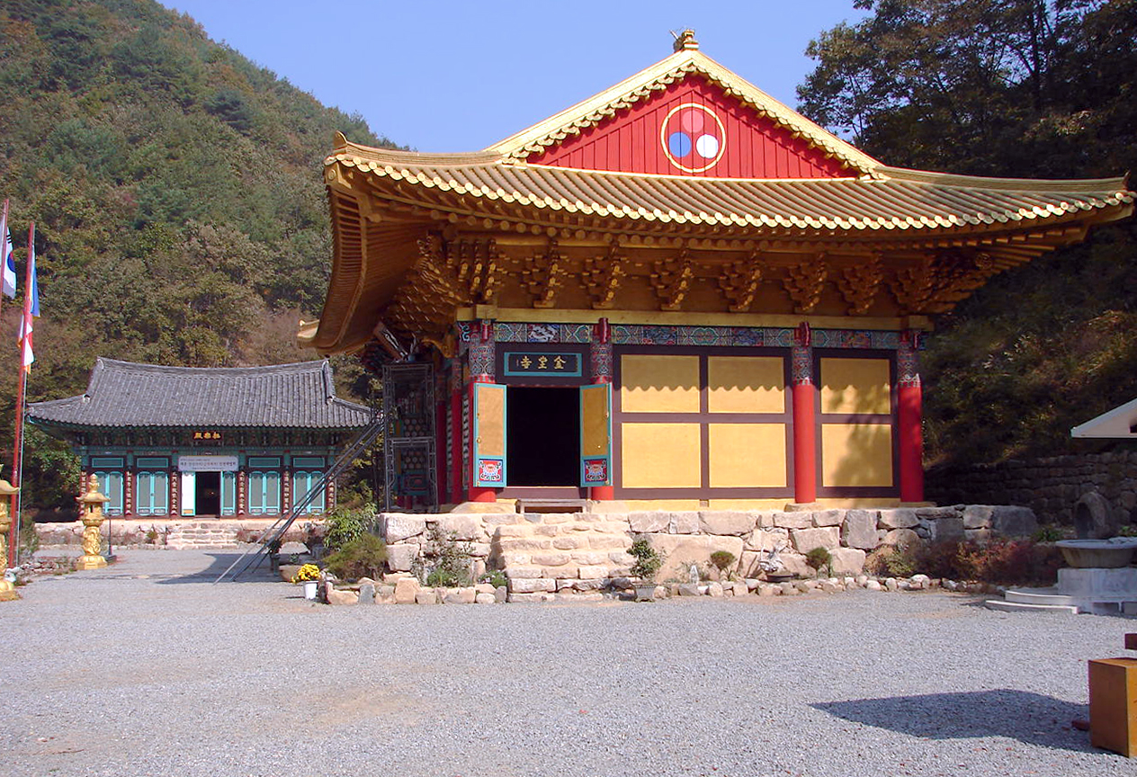 Geumdangsa (금당사 - Buddhist Temple) in the Maisan (Hourse Ear Mountain) in Jinan County, North Jeolla Province, South Korea.